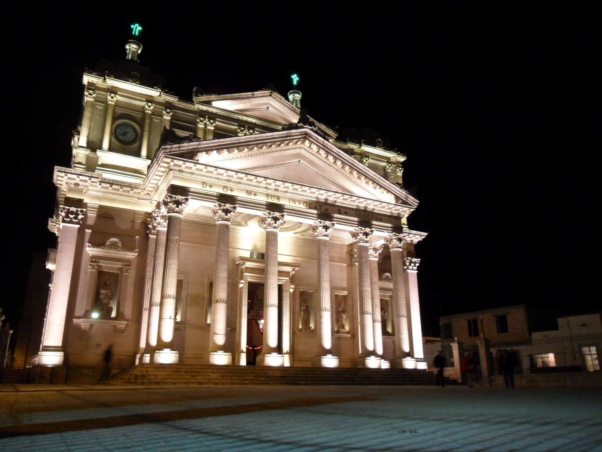 San Jose church, San Jose Iturbide, Guanajuato